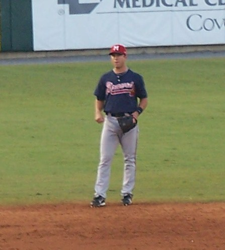 Concepción Rodríguez playing shortstop for the Mississippi Braves. This picture was taken in Smokies Park in Kodak, TN.